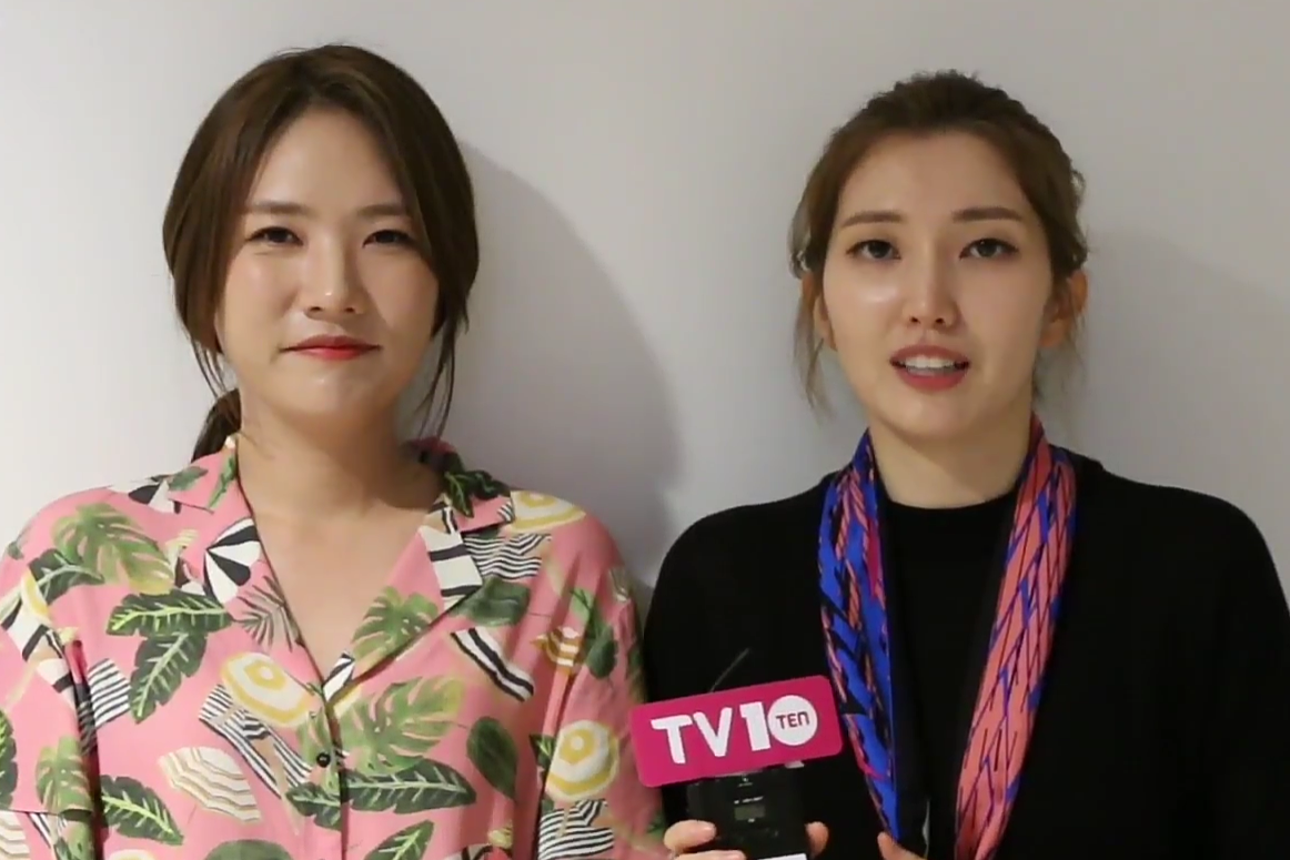 Rooftop Moonlight at Angel-in-us X Ten Asia Specialty Concert on July 8, 2017